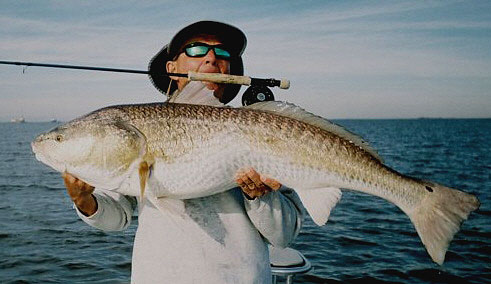 Saltwater Fly Fishing Guide Alec Griffin with a Louisiana Redfish.